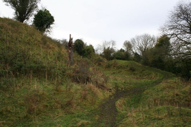 Builth Castle Along the Ramparts as you can see is muddy.